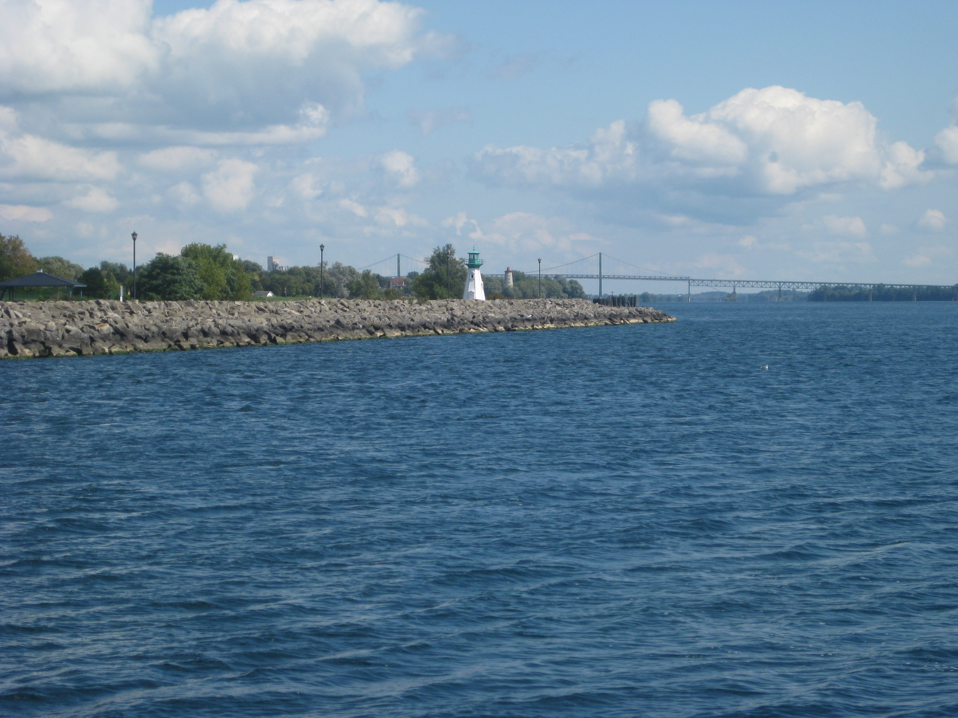 The breakwater and lighthouse